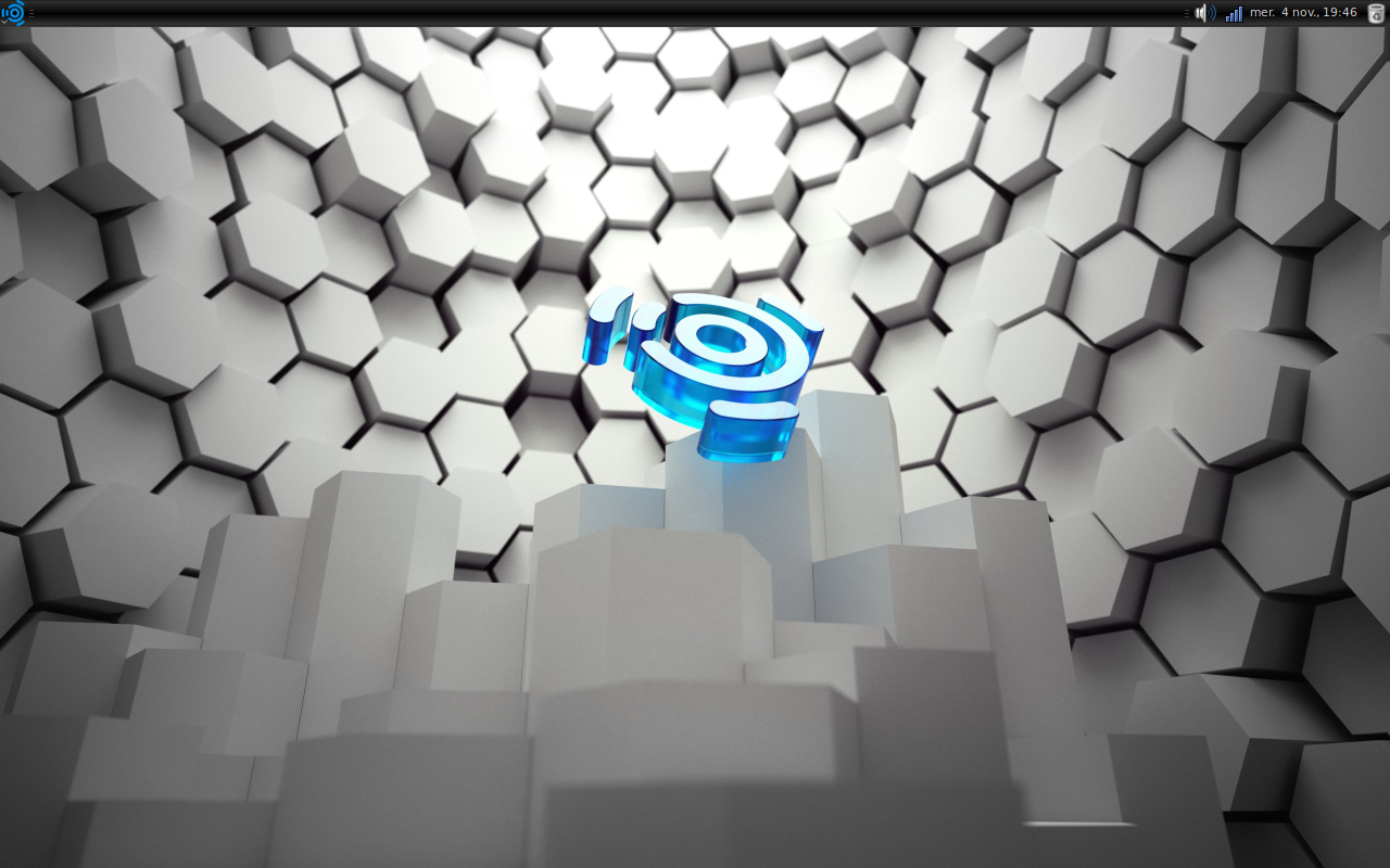 Screenshot of Ubuntu Studio 9.10 (Karmic Koala) desktop environment.